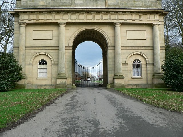 The Gatehouse, Harewood Estate